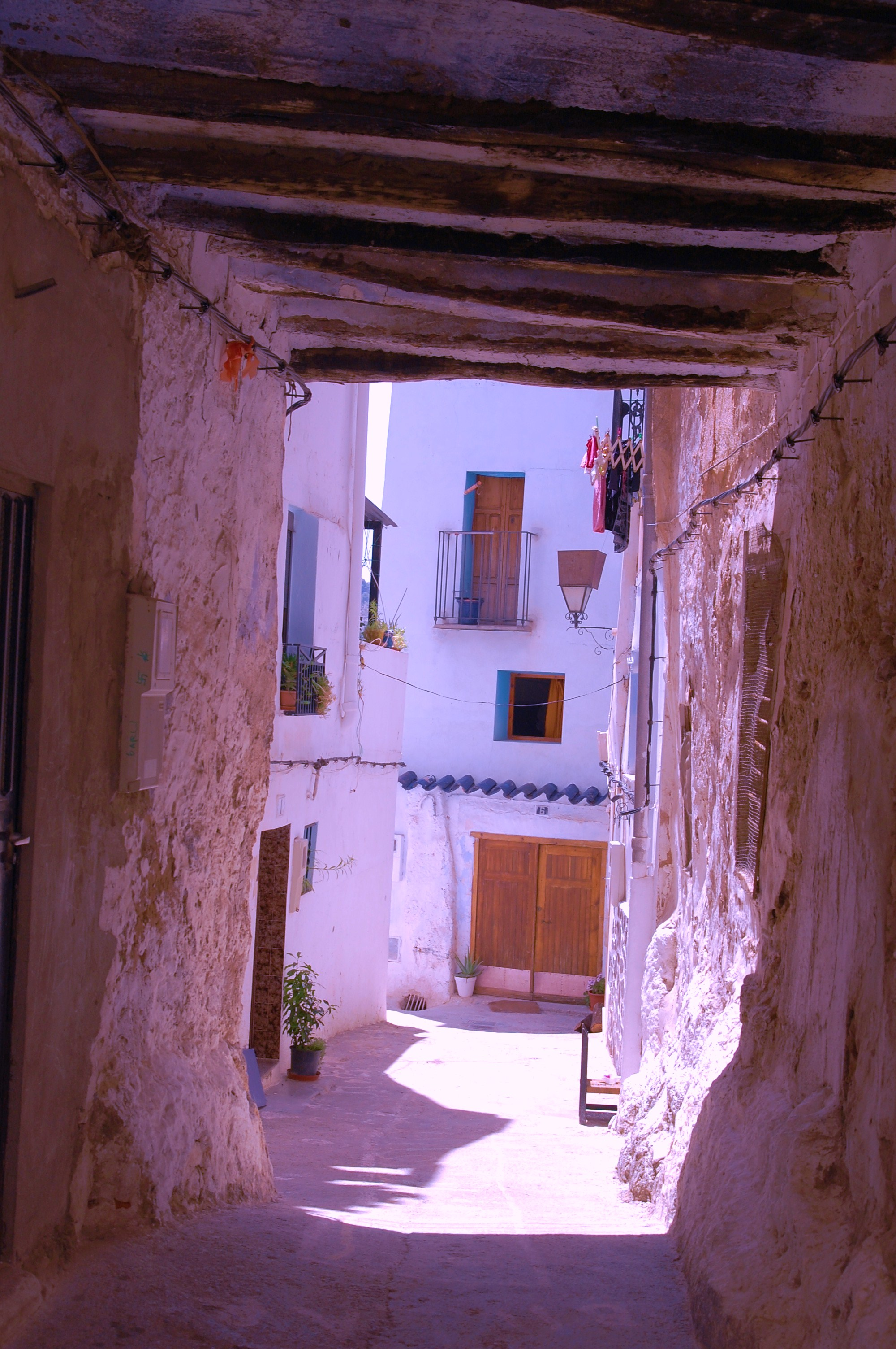 A view of Villar's cul de sac (Chelva, Spain)